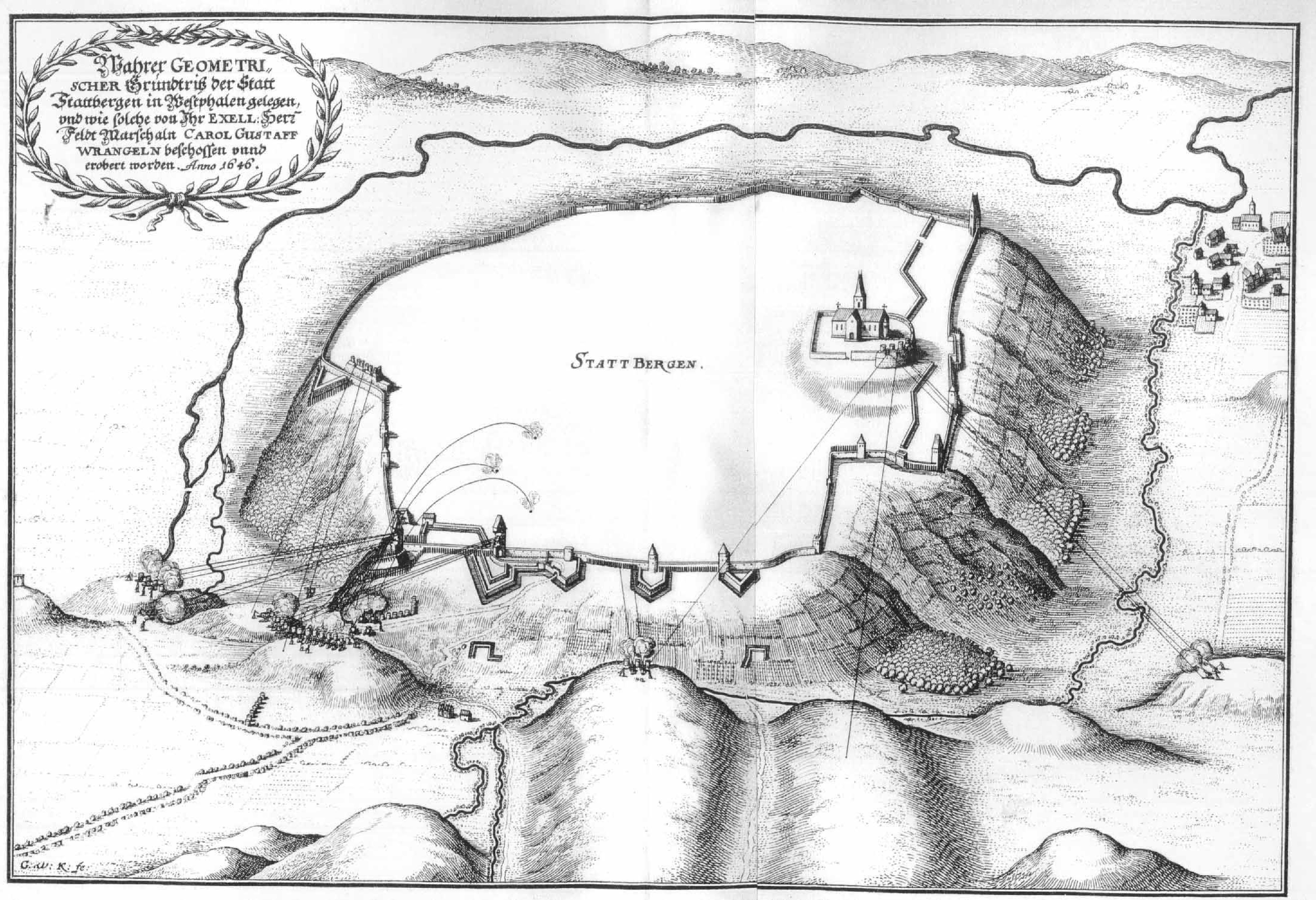 This is a scan of the historical document